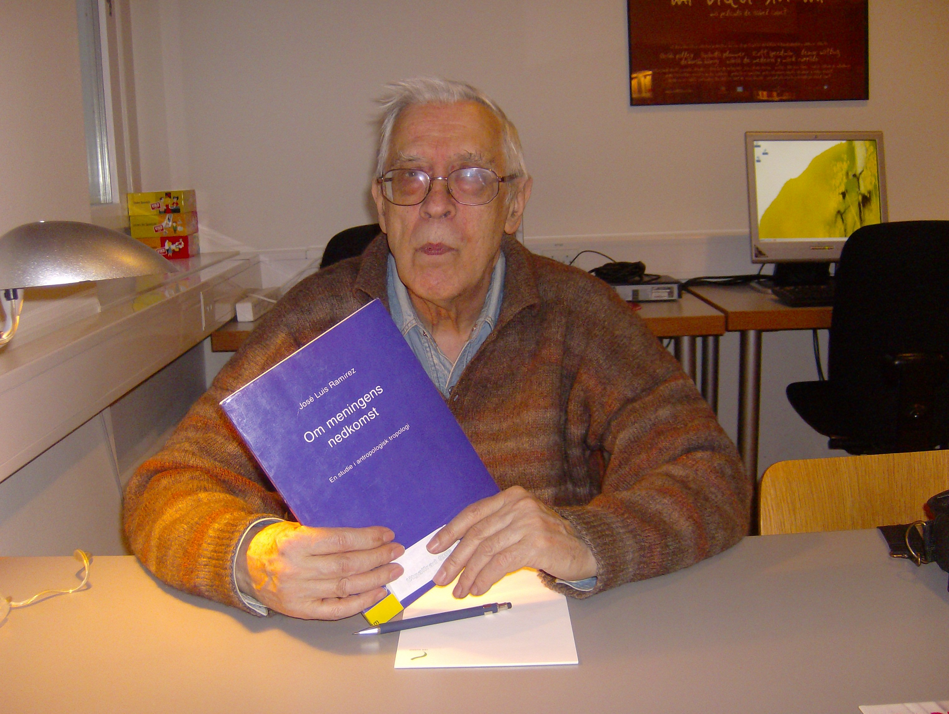 Spanish-Swedish urban planner José Luis Ramirez (1935-)